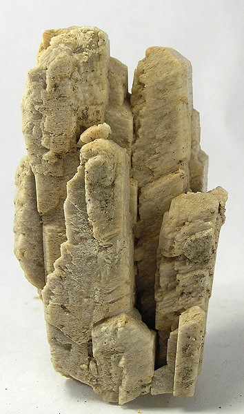 Orthoclase Locality: Organ Mts, Organ District, Doña Ana County, New Mexico, USA (Locality at ) Size: 8.4 x 4.6 x 3.8 cm. Orthoclase usually does not make for very interesting specimens, and is mostly an accessory mineral on specimen of OTHER minerals (unless it is in the blue amazonite variety). But this is a very aesthetic specimen with elegant form and sharp, elongated crystals, from a lesser-known American locality. The crystals grew in parallel, terminating in a tiered arrangement. The cluster is complete all around and the terminations are all there on top.